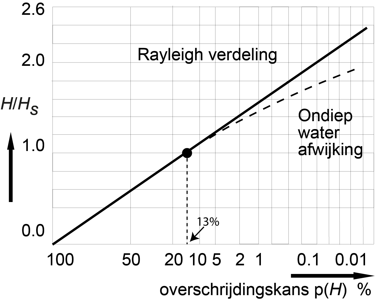 Rayleigh distribution of random water waves; including deviation in shallow water